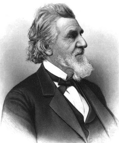 Daniel Wells, Jr. (Wisconsin Congressman)